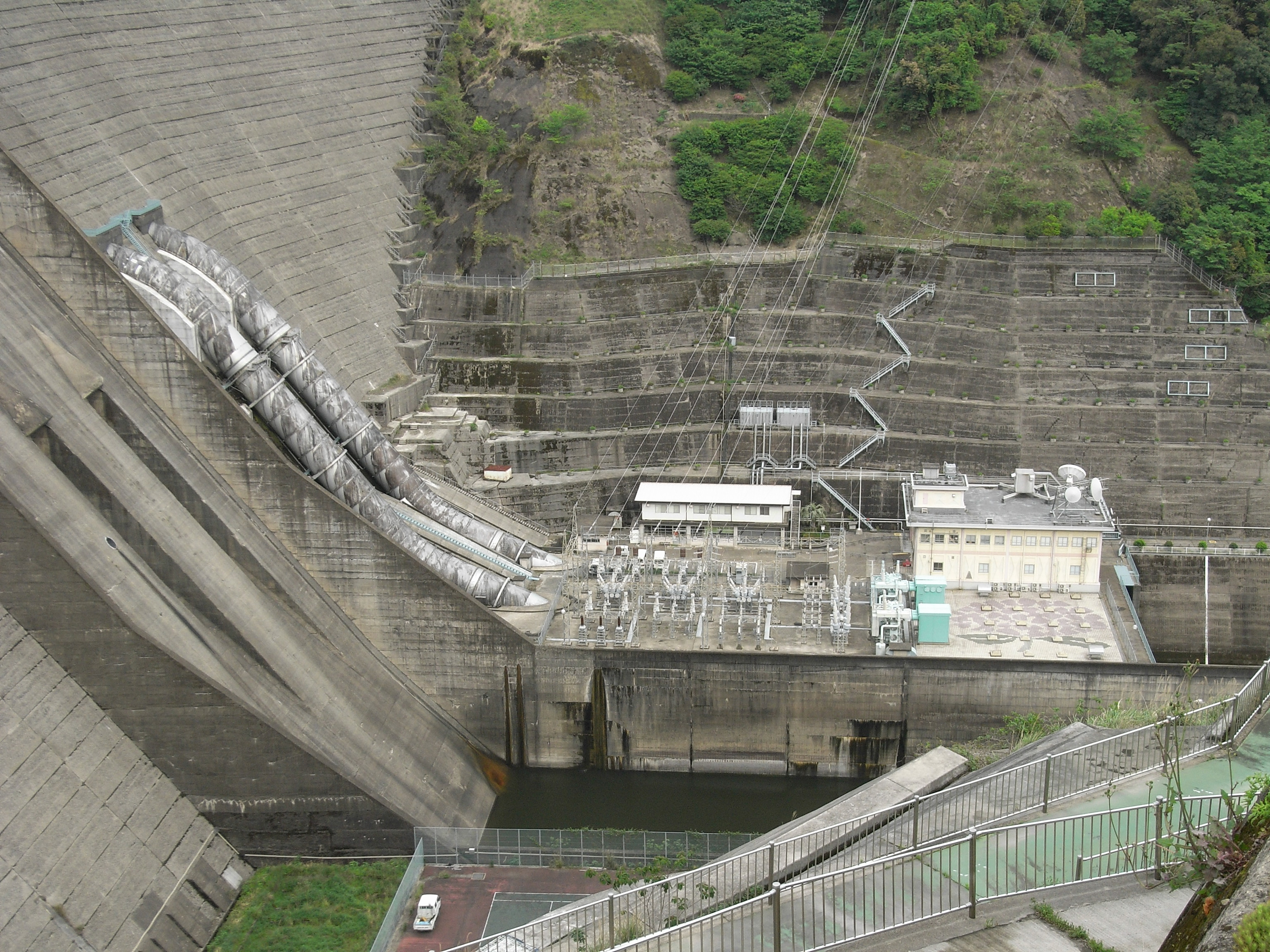 Hydroelectric powerplant